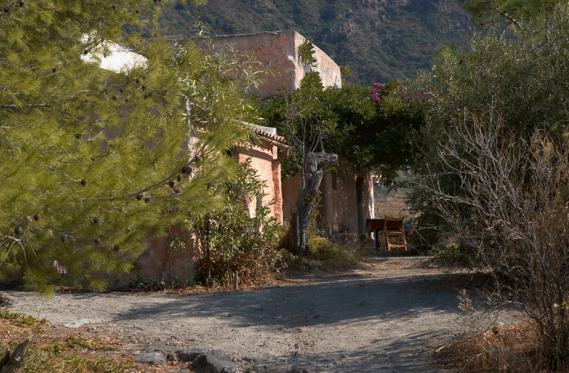 Many of the scenes of the Oscar-winning "Il Postino" movie were shot in Pollara in Salina. This is the house that served as poet Pablo Neruda's italian retreat in the movie.